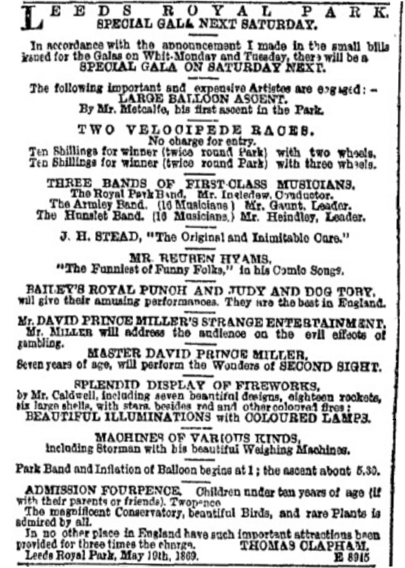 Leeds Royal Park - Special Gala Next Saturday